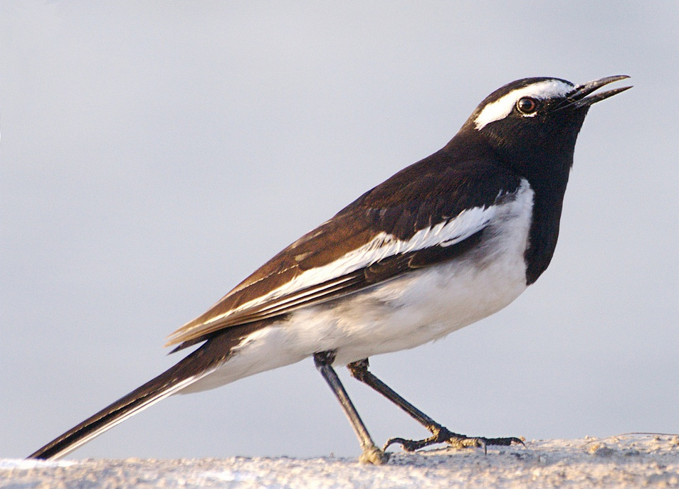 A White-browed Wagtail (also known as Large Pied Wagtail) near Pashan Lake, Pune, Maharashtra, India.